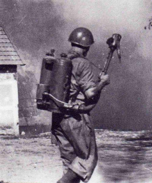 Italian wwII era flamethrower